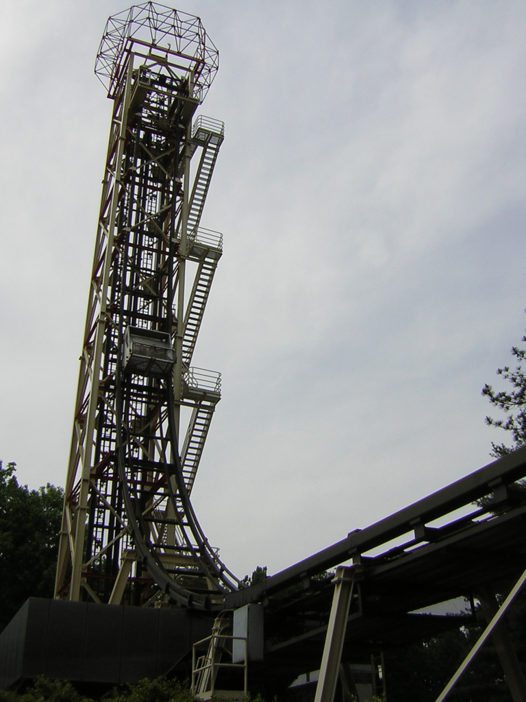 Free Fall at Six Flags Over Georgia, USA.